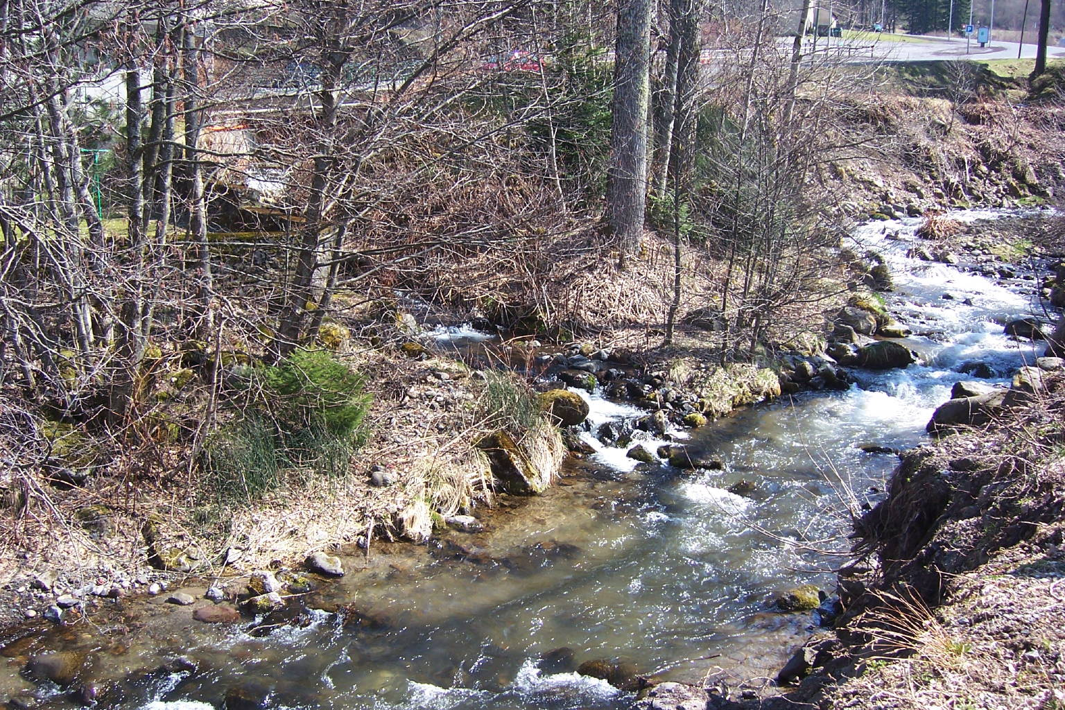 The Dordogne river, just upstream the town of Mont-Dore